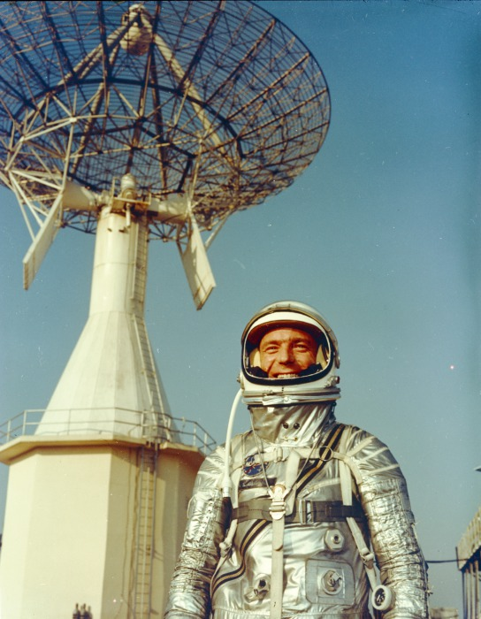 Astronaut Scott Carpenter poses in his pressure suit and helmet for press photographers at Cape Canaveral during MA-7 pre-flight activities